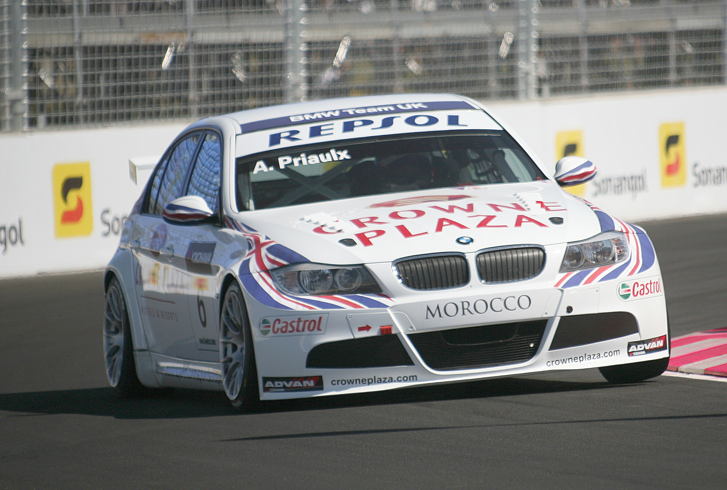 Andy Priaulx driving BMW 320si at Marrakech (2009 WTCC season).